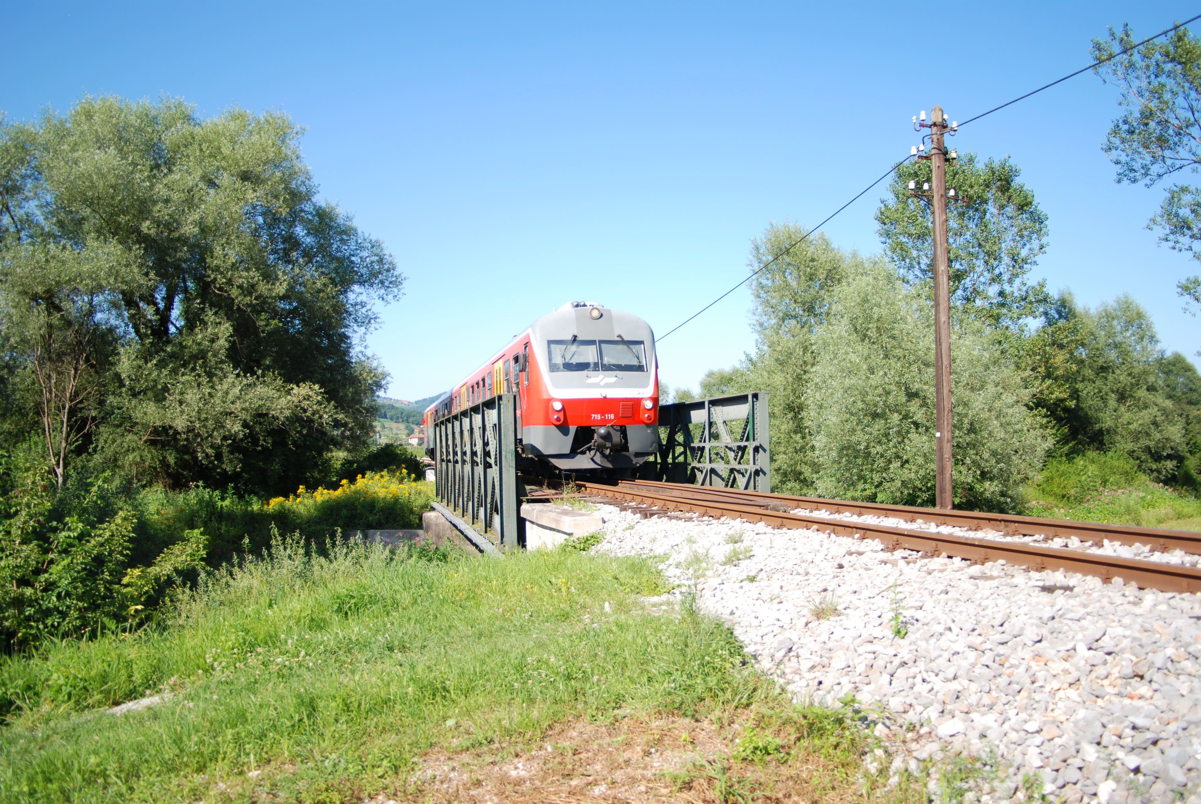 The railway bridge over the Mirna at Mirna, in the vicinity of the Dana factory. The train No. 715-116 (Slovenian Railways).